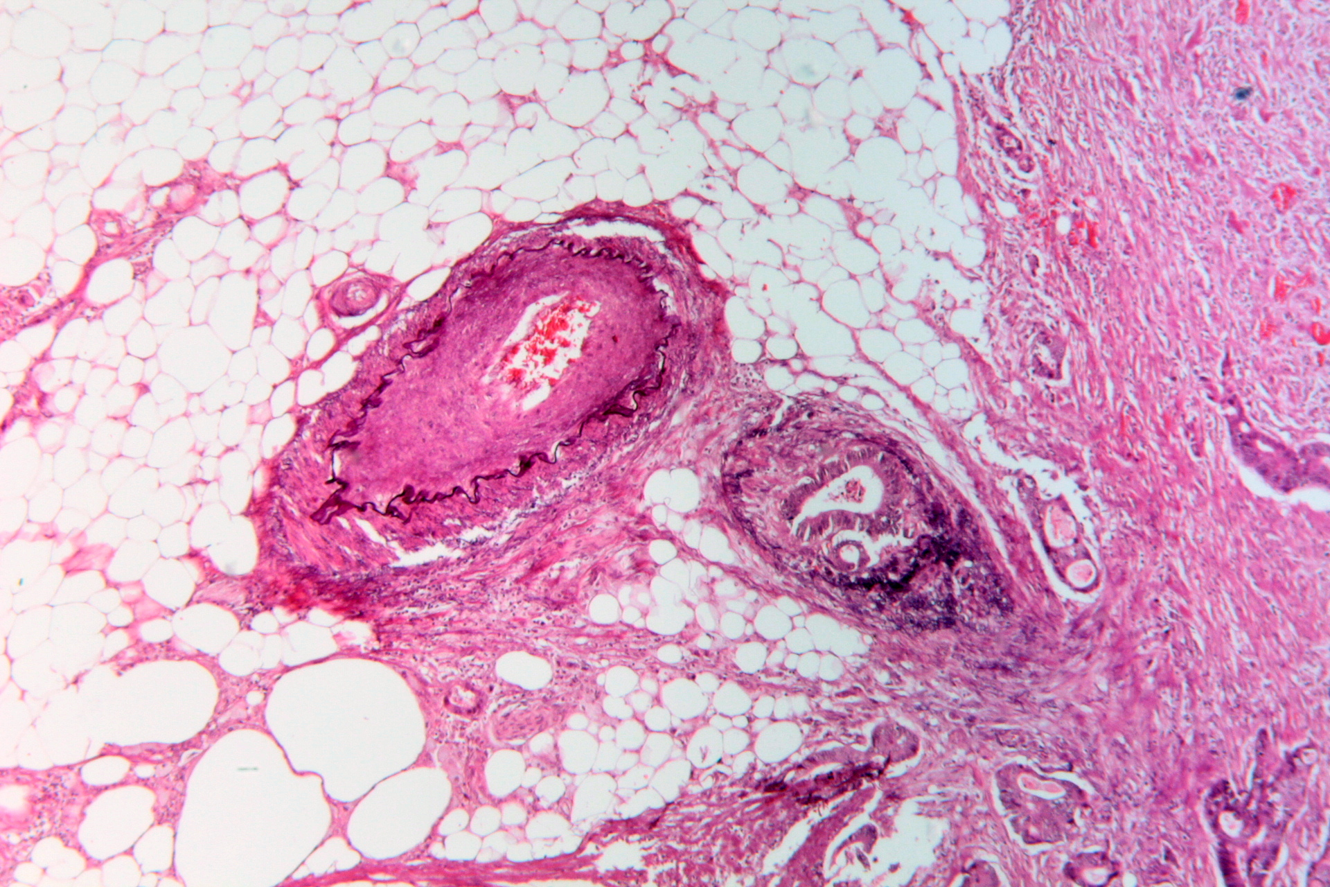 tumor invasion into vein in a case of colorectal cancer.